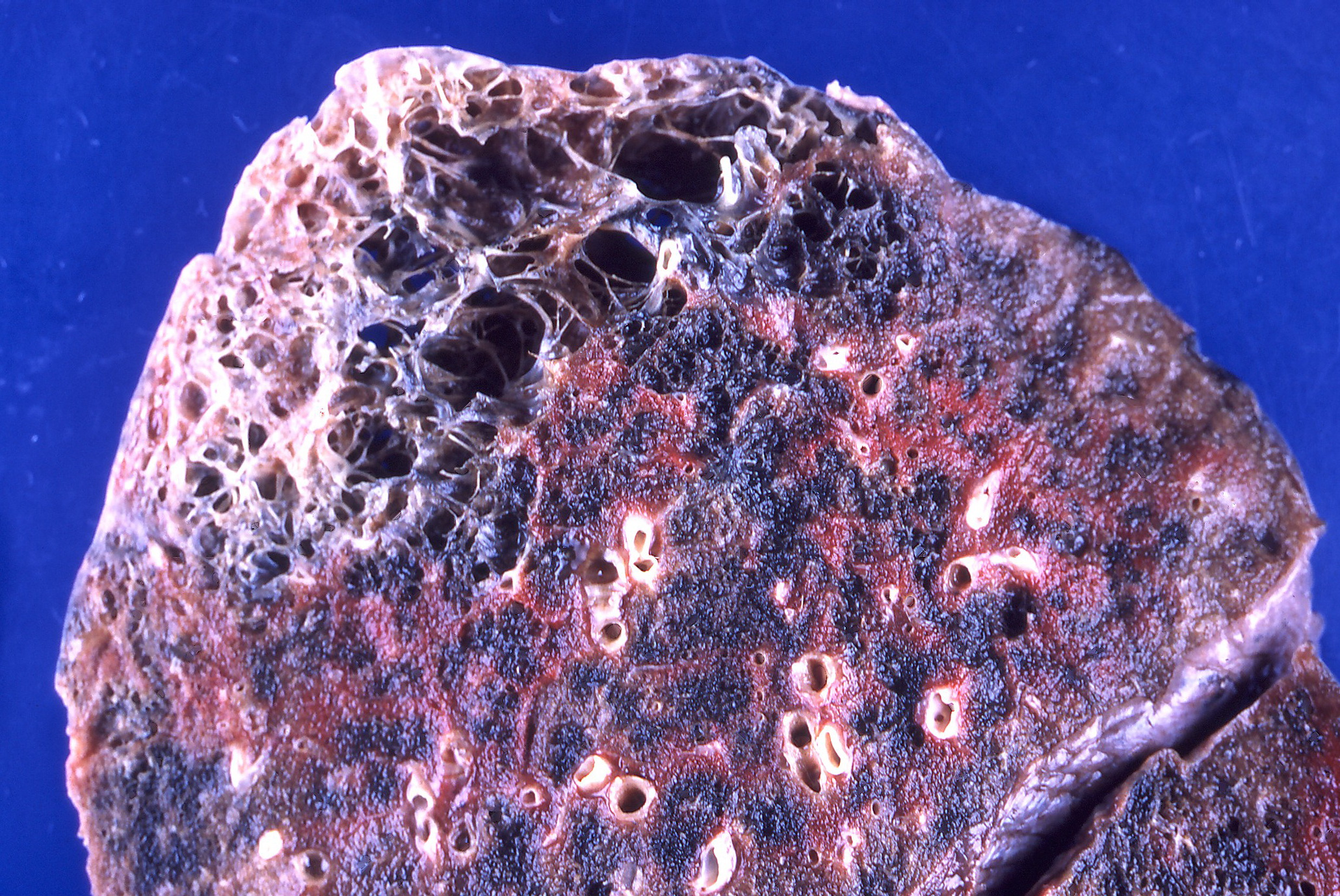 Apical emphysema with bullae. A bulla is defined as an emphysematous space greater than 1 cm.